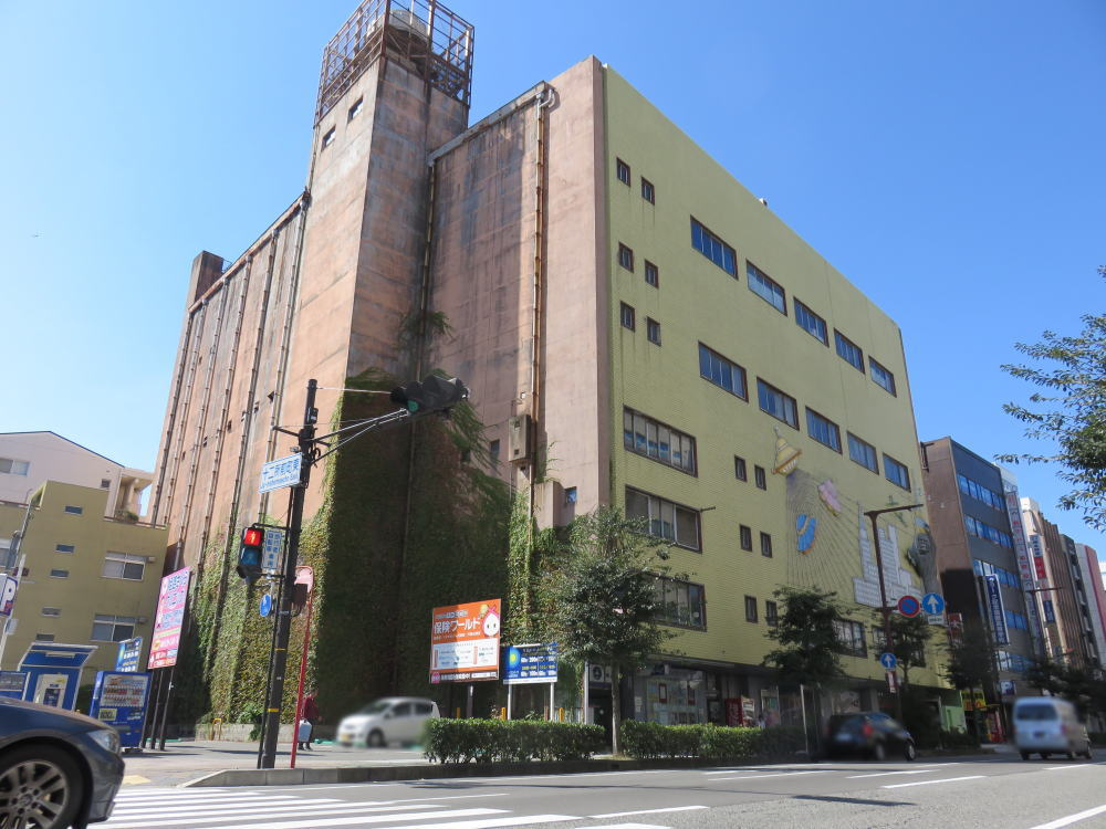 Daigekikaikan (Himeji City)